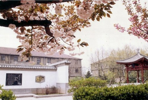 Dongting in Xian Uiaotong University